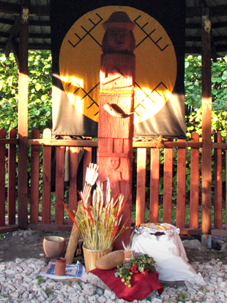 Harvest Festival - a sacrifice of food during the celebration